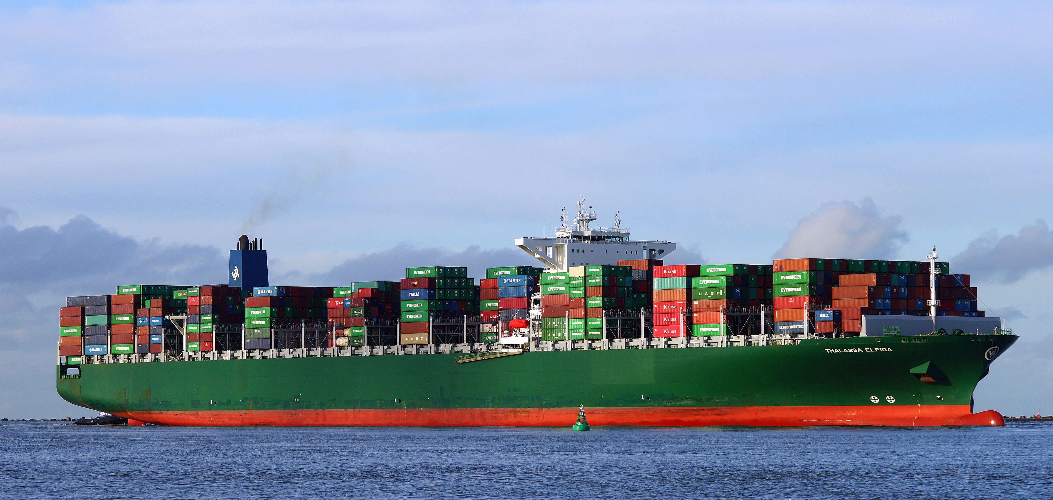 Container Ship Thalassa Elpida, Calandkanaal, Europoort - Rotterdam.